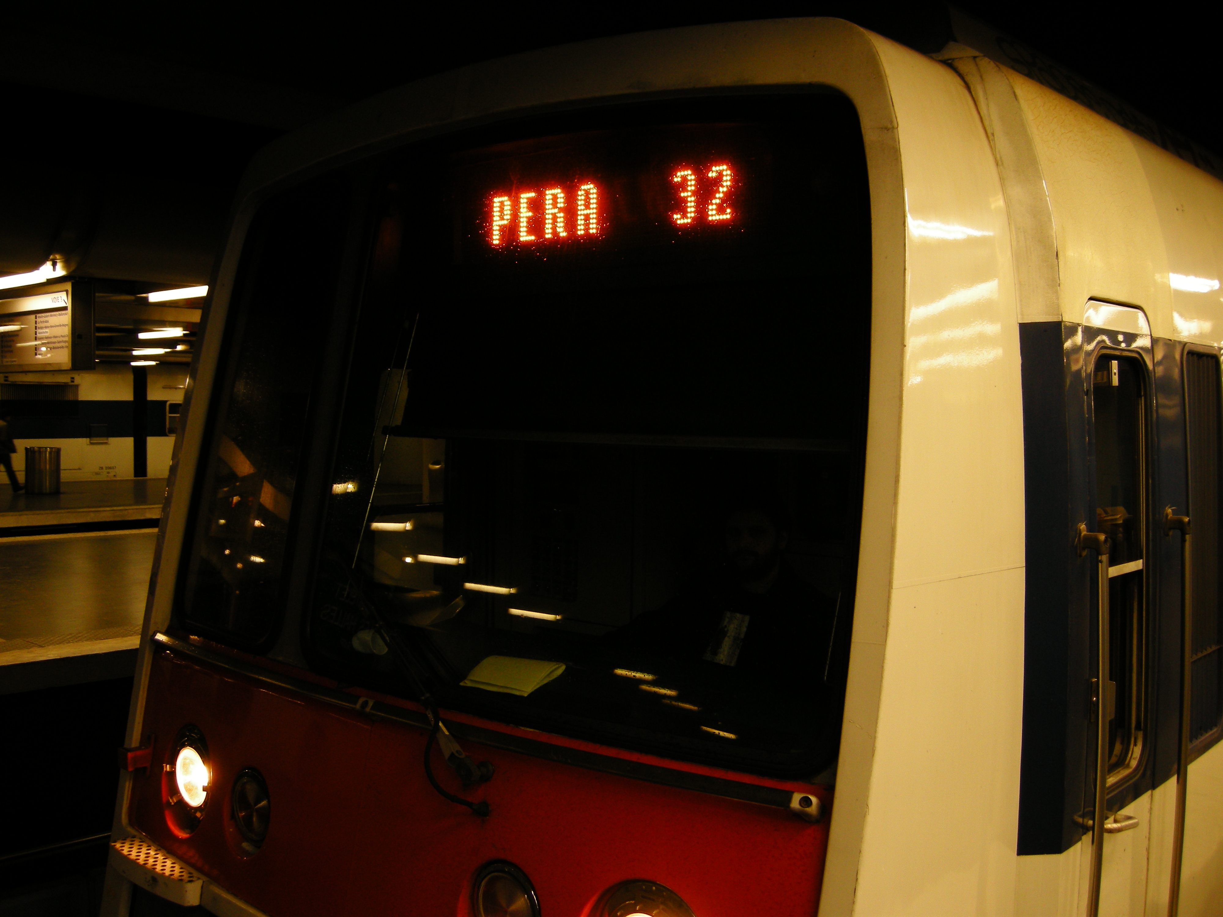 A rolling stock MI 79 of RER B displayed the name "PERA 32"